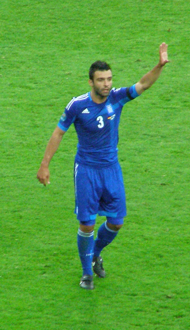 Gdańsk - PGE Arena - Euro 2012 - quarter final match Germany - Greece - Georgios Tzavellas